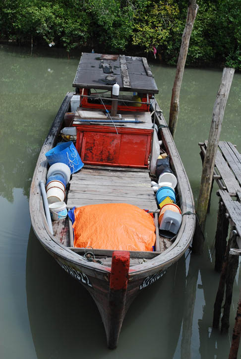 A traditional fishing boat docking at a man-made jetty. Pulau Ketam/Crab island is a GREAT place to escape from the modern day hectic and stressful life.